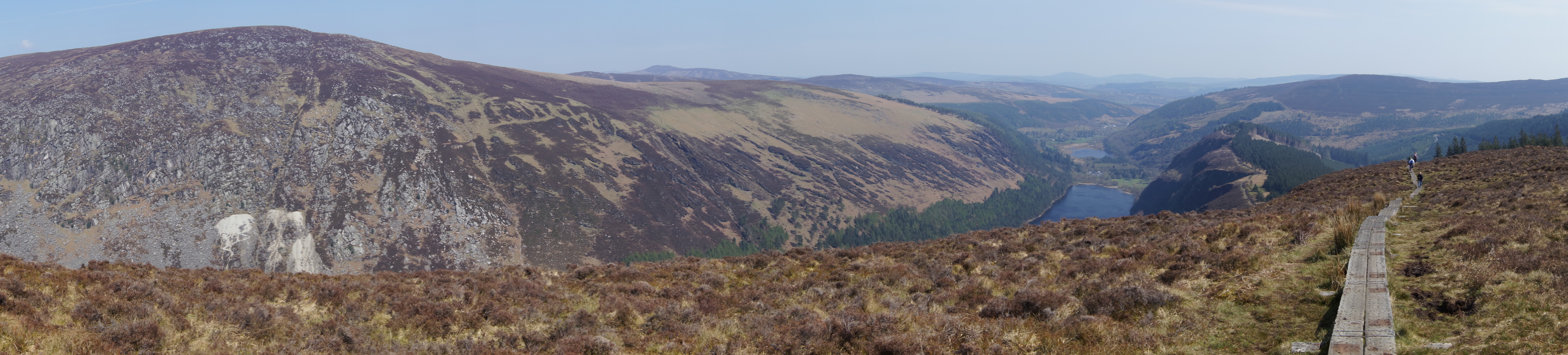 Photograph of the high Glenalo Valley looking down into the Upper Lake of Glendalough. The boardwalk to The Spinc (middle distance, right) is visible at right